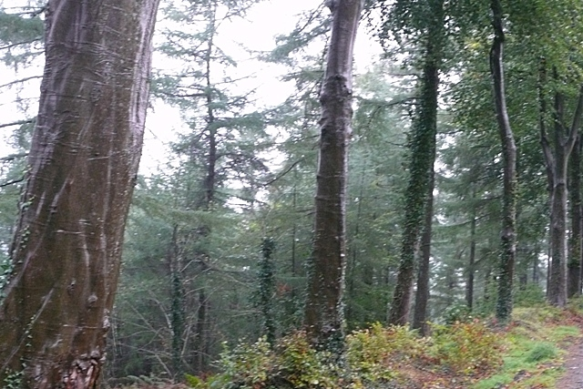 St Gwynno Forest Just one part of one of the largest plantations in the area.